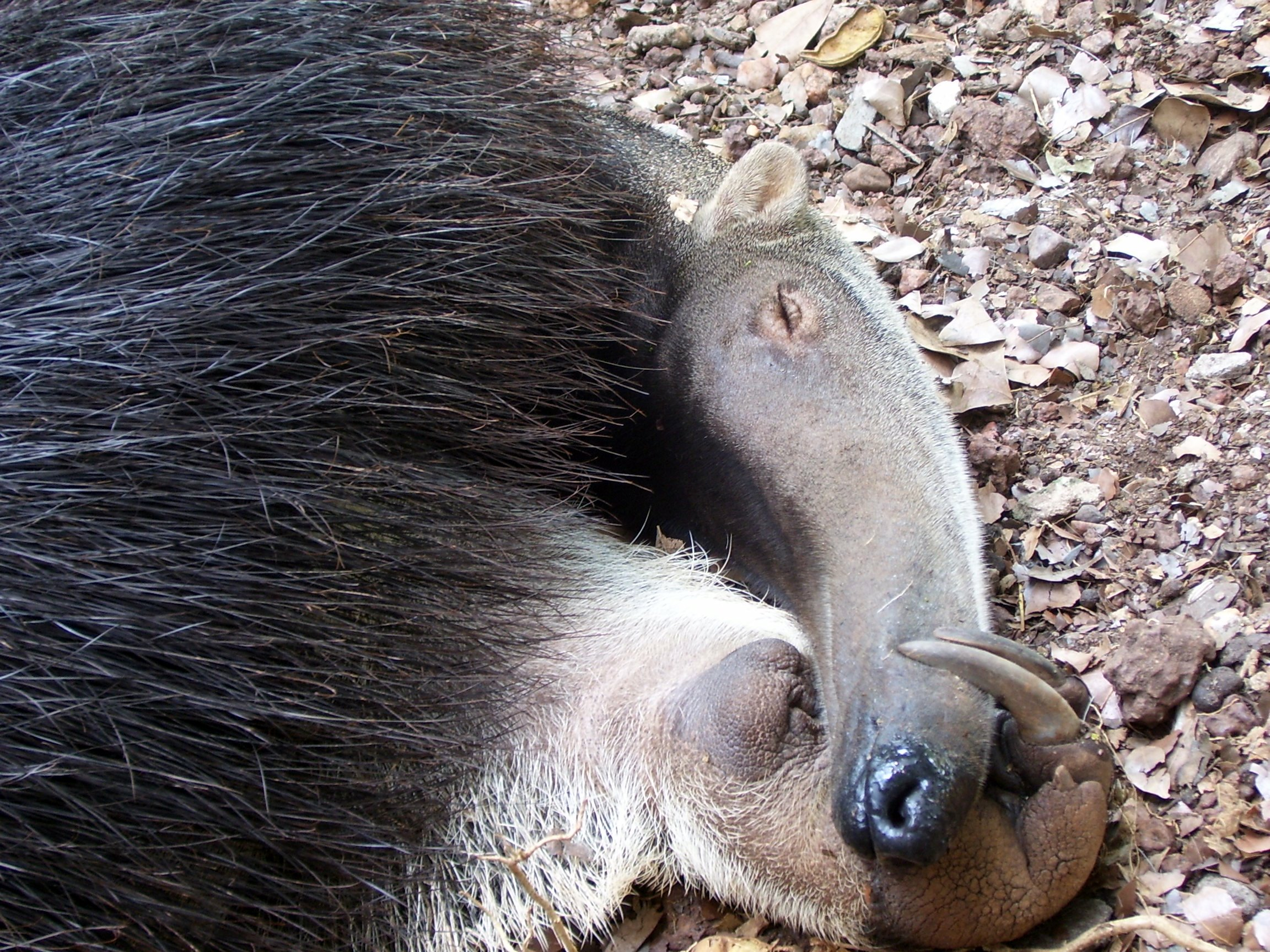 Giant Anteater (Myrmecophaga tridactyla) sleeping, in the zoo of Federal University of Mato Grosso, Cuiabá, Brazil.